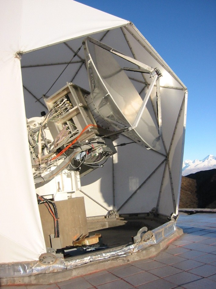 A shot of the SST during a maintenance procuderue with its radome opened.